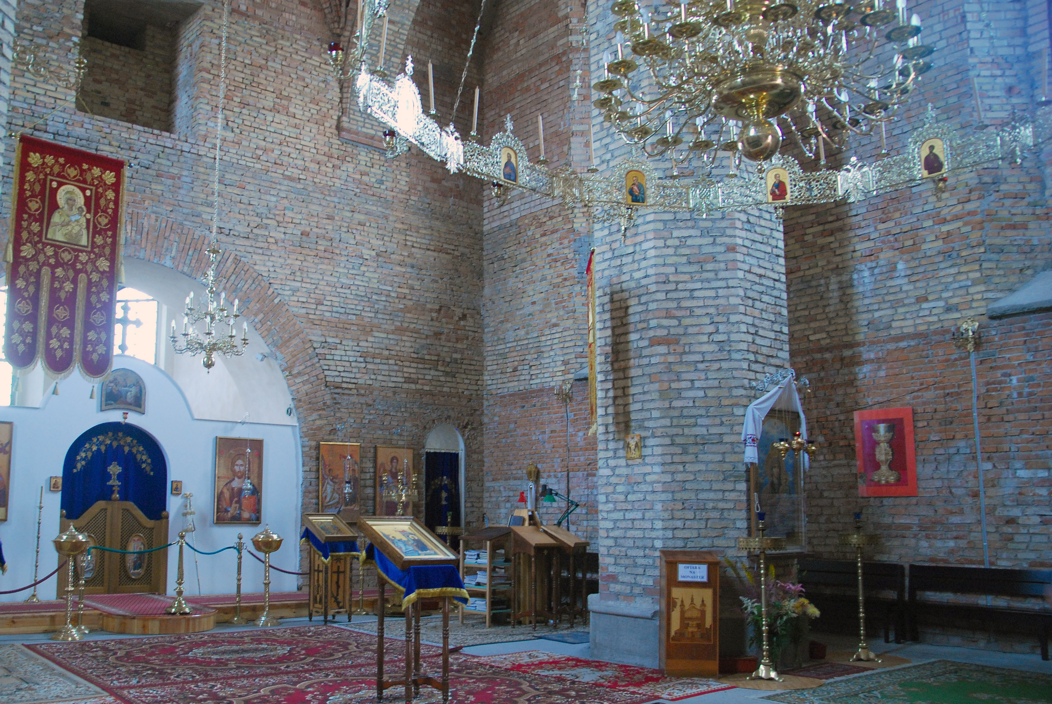 Wnętrze Cerkwi Zwiastowania NMP w Supraślu This photo from Podlaskie Voievodeship was taken during Polish Wikiexpedition 2009 set up by Wikimedia Polska Association. The making of this document was supported by Wikimedia Polska.